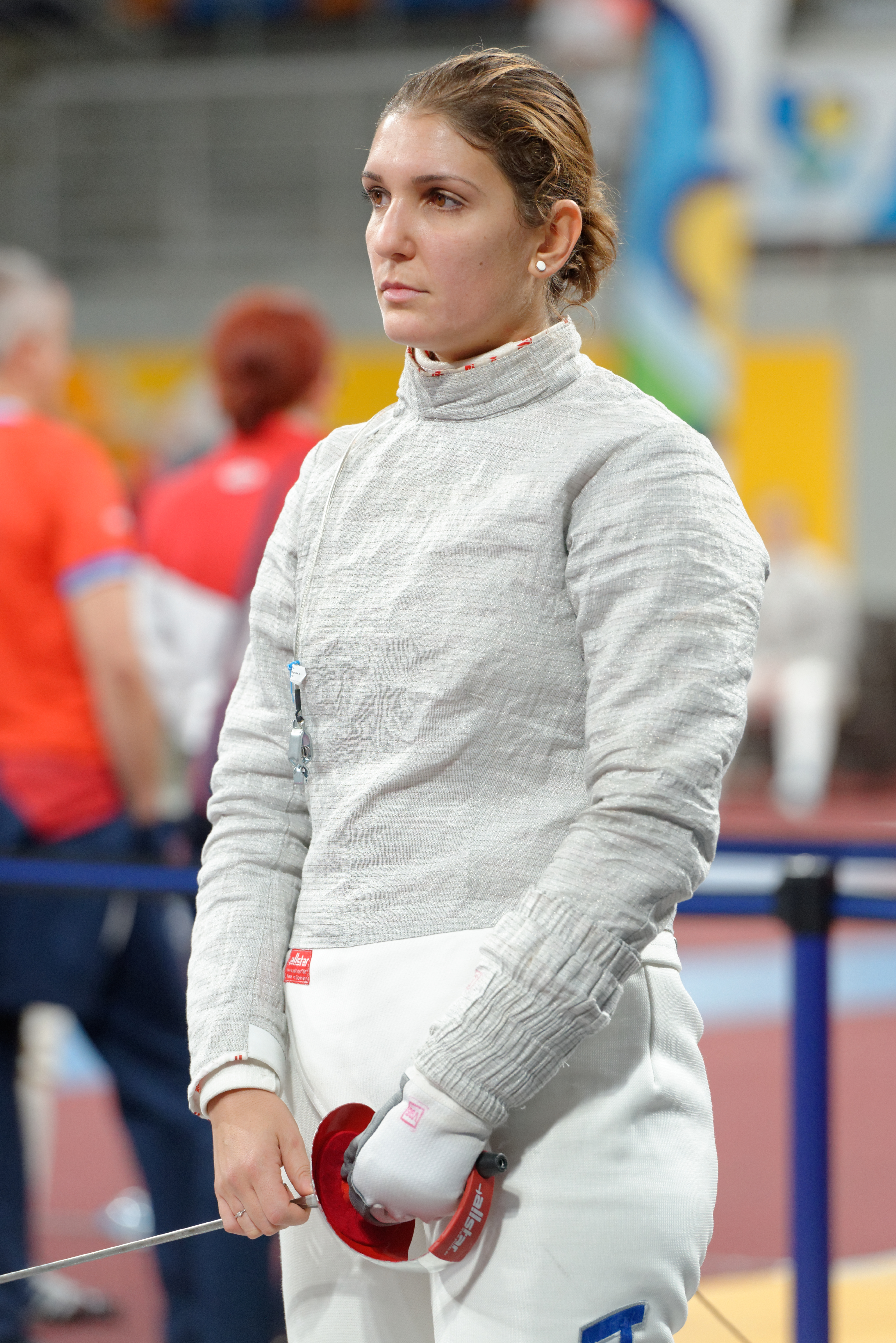 Italy's Arianna Errigo at the individual event of the 2016 Orléans World Cup in women's sabre.